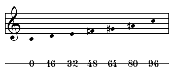 This is the representation of the whole tones of an octave in the current music notation system and its equivalent in the system known as Sonido 13 in sixteenths of tone (as shown in Julián Carrillo's Rectificación Básica al Sistema Musical Clásico), Daniel Acosta, own work